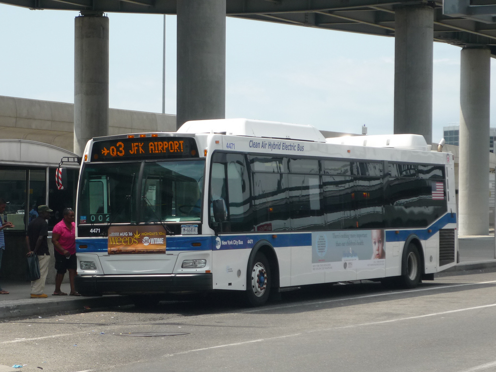 Spotted outside of JFK after I landed on a flight from Jamaica. I've always thought these new Orions looked pretty sharp, though I have a sort of nostalgia for their boxier designs of old. If I'm not mistaken, I believe MTA is the largest operator of this model in the country.